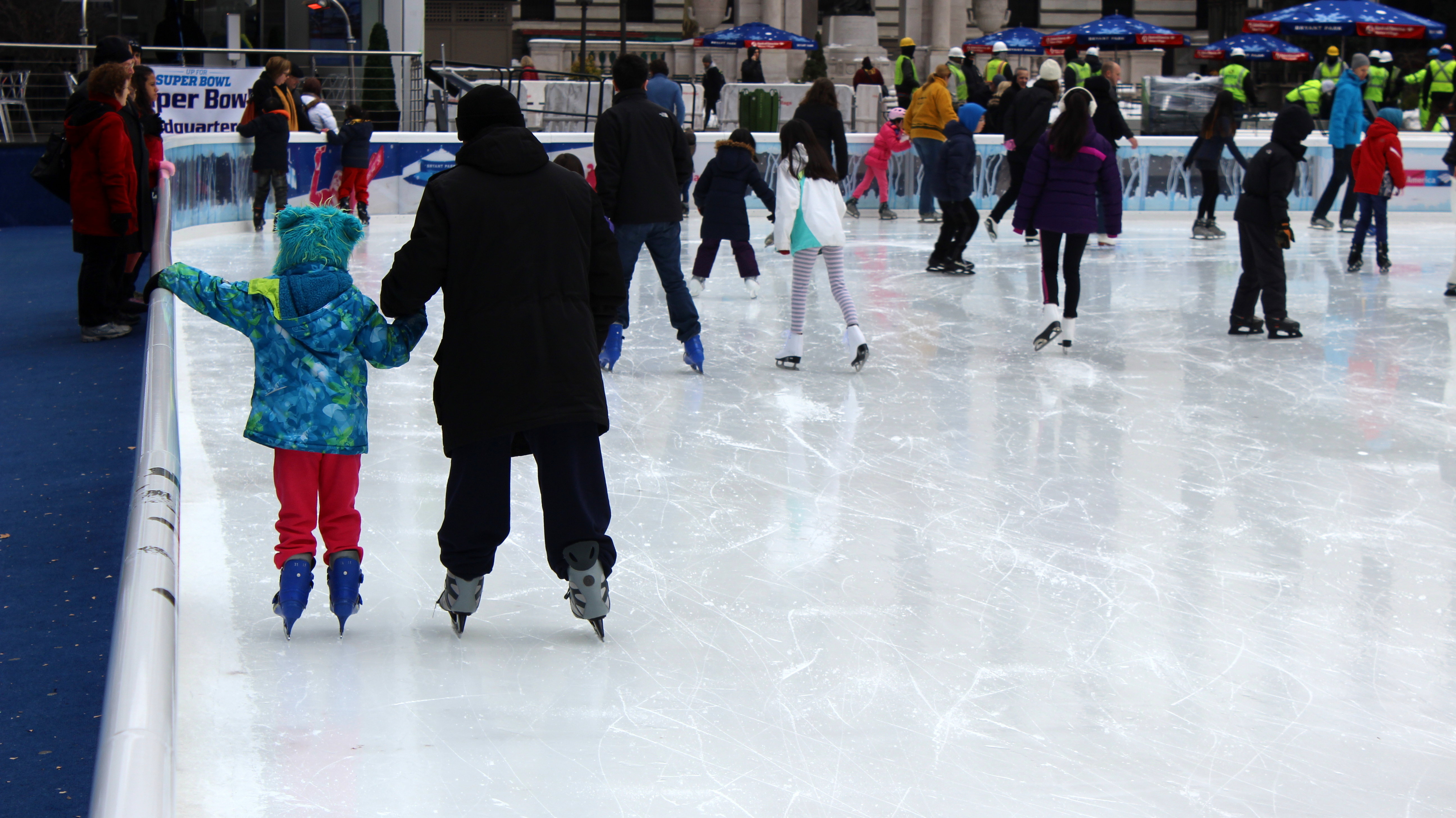 Ice Skating